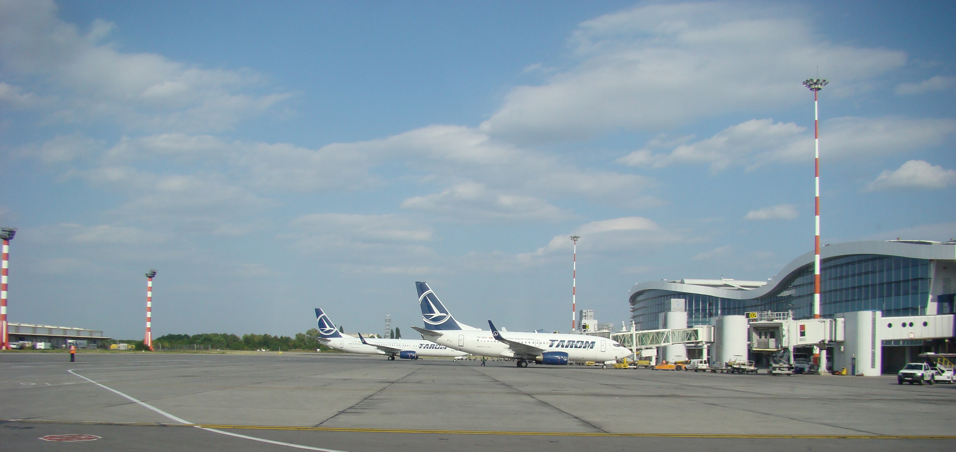 TAROM Boeing 737 airplanes at Henri Coandă Bucharest Airport